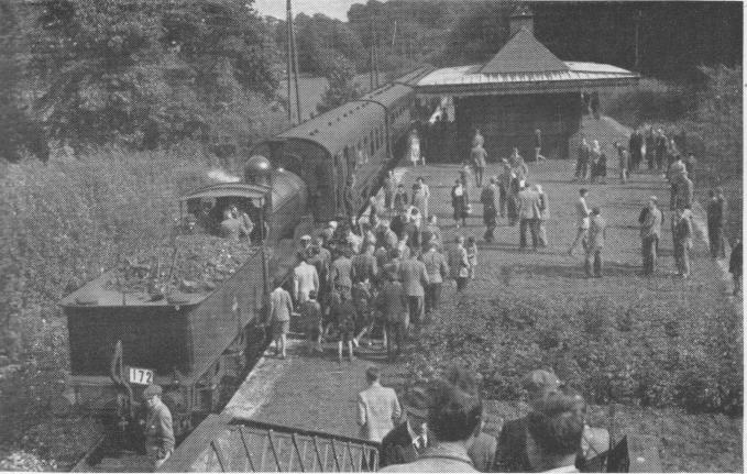 Caledonian Railway 294 Class No. 57266 with a four car corridor coach set used for the Stephenson Locomotive Society's Paisley-Barrhead district tour on 1 September 1951 at Glenfield (Paisley) railway station, which was then used as a dwelling house. The tenant has turned part of the platform into a vegetable garden.